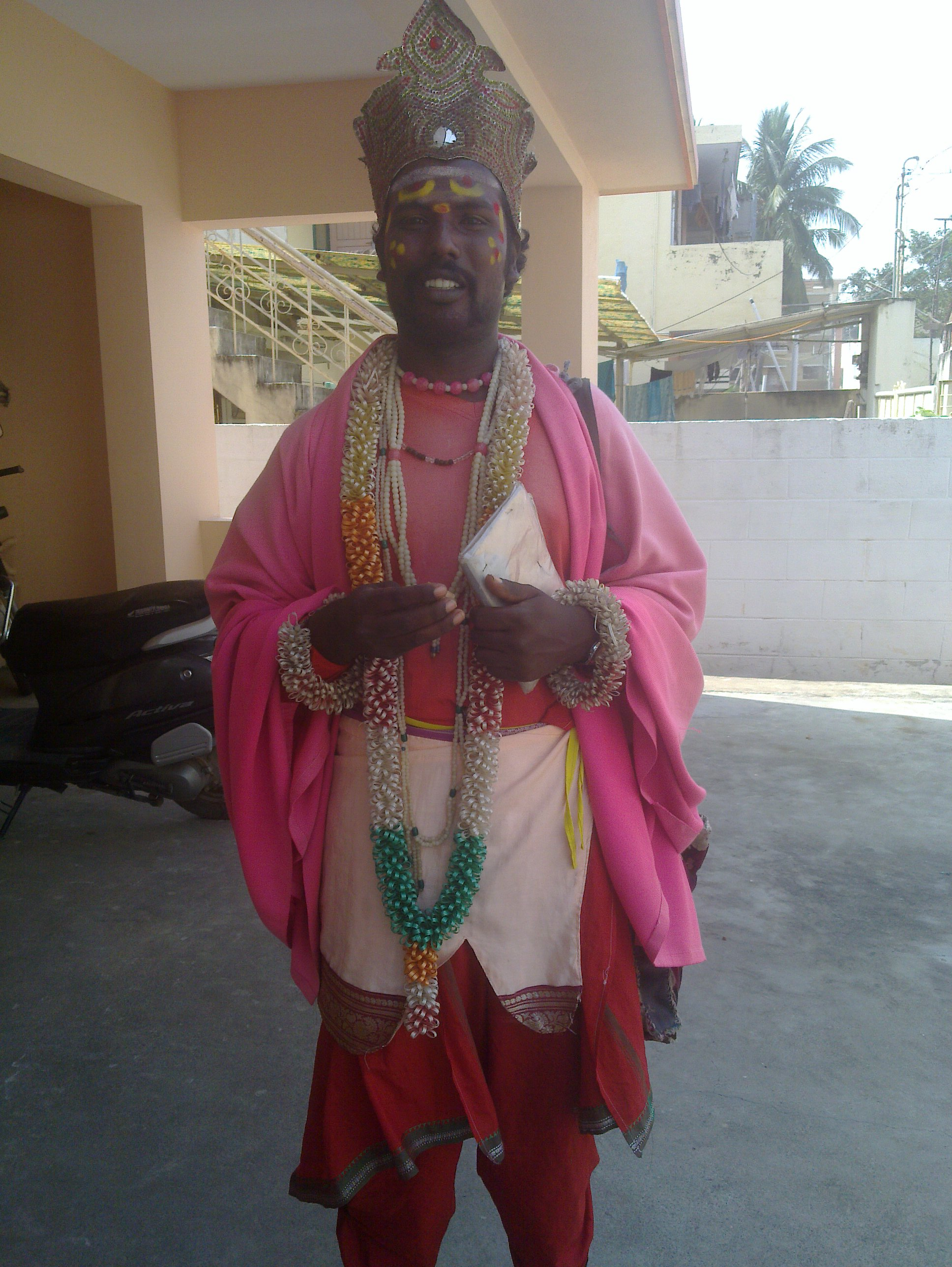 a man who make up for pagatti veshalu